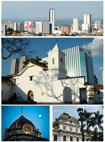 This is a representative image of Santiago de Cali, Colombia. The top picture is the city central skyline, then in the middle we have "La Merced" Church, which was the first church in the city, and finally the two bottom pictures, are in the right the "Municipal Palace" and in the left the "San Pedro" cathedral.